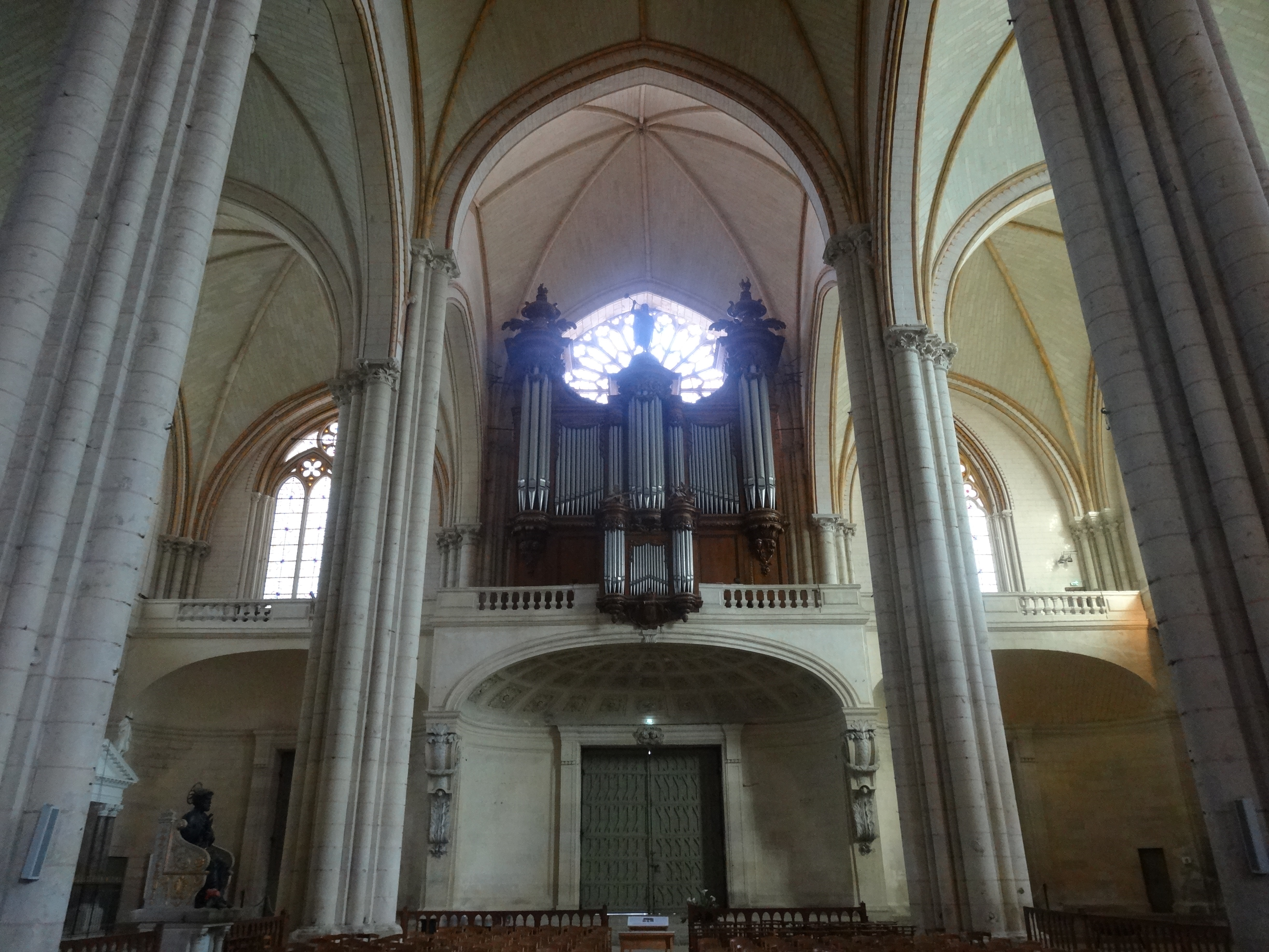 Interior of Cathédrale Saint-Pierre de Poitiers